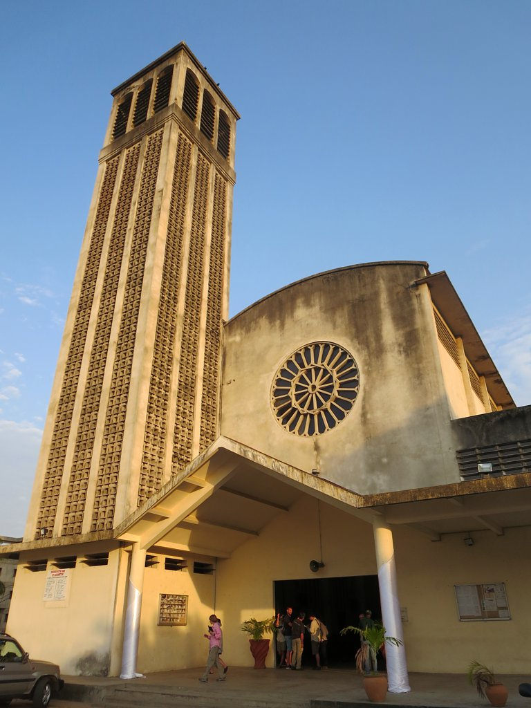 The Cathedral of Notre Dame de l'Assomption in Pointe-Noire, Republic of Congo, was erected in 1953.